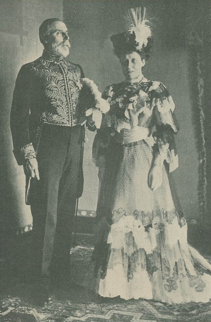 Sir Maurice William Ernest de Bunsen, 1st Baronet (1852–1932), a British diplomat, and his wife, Bertha Mary Lowry-Corry.